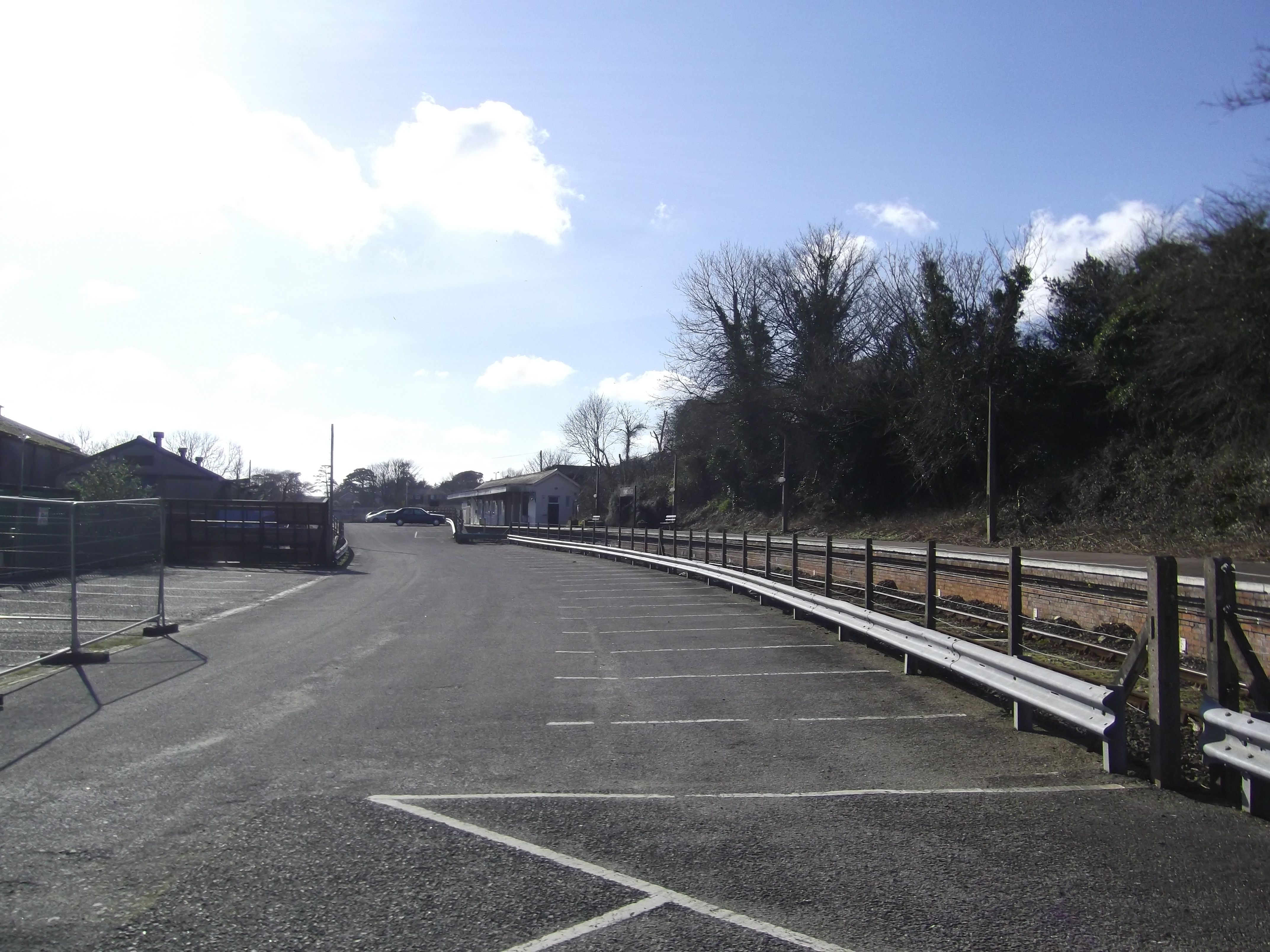 The Looe branch station at Liskeard in Cornwall, looking south; the line to Looe runs to the bottom right of the shot